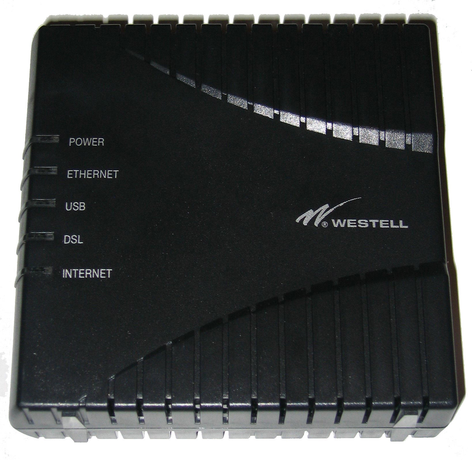 A picture I took of a Westell Model 6100 ADSL modem/router to replace the low-res, suspected copyvio on the page. --Douglas Whitaker 22:57, 23 July 2006 (UTC)